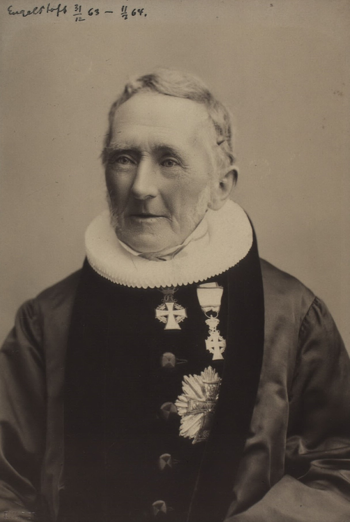 Christian Thorning Engelstoft (1805-1889), Danish bishop, Church Minister and Rector of the University of Copenhagen